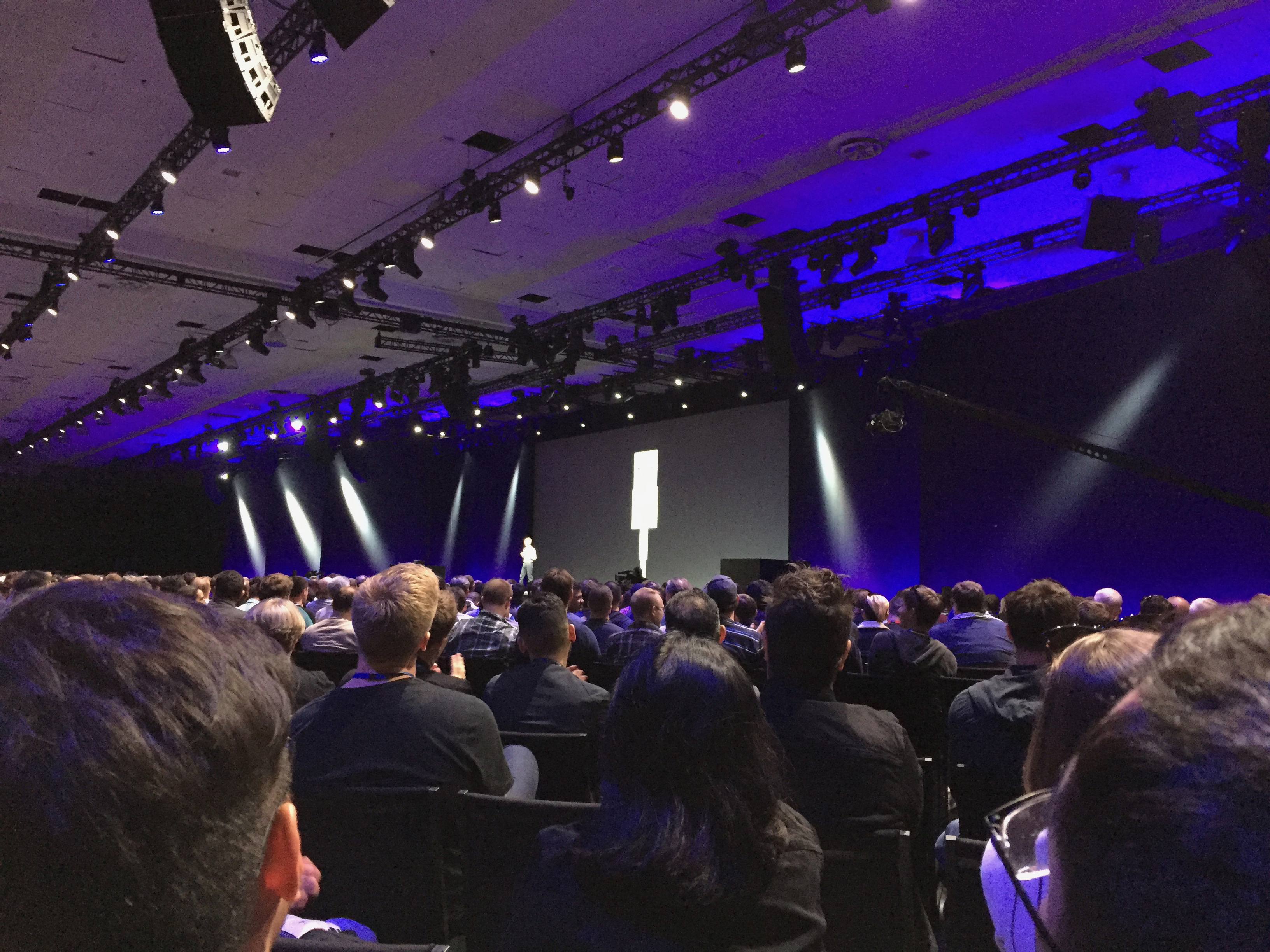 A packed room watches the Platforms State of the Union address at the 2017 Apple Worldwide Developers Conference in San Jose, California, United States. The slide depicts a USB cord as part of an announcement about wireless debugging in Xcode.